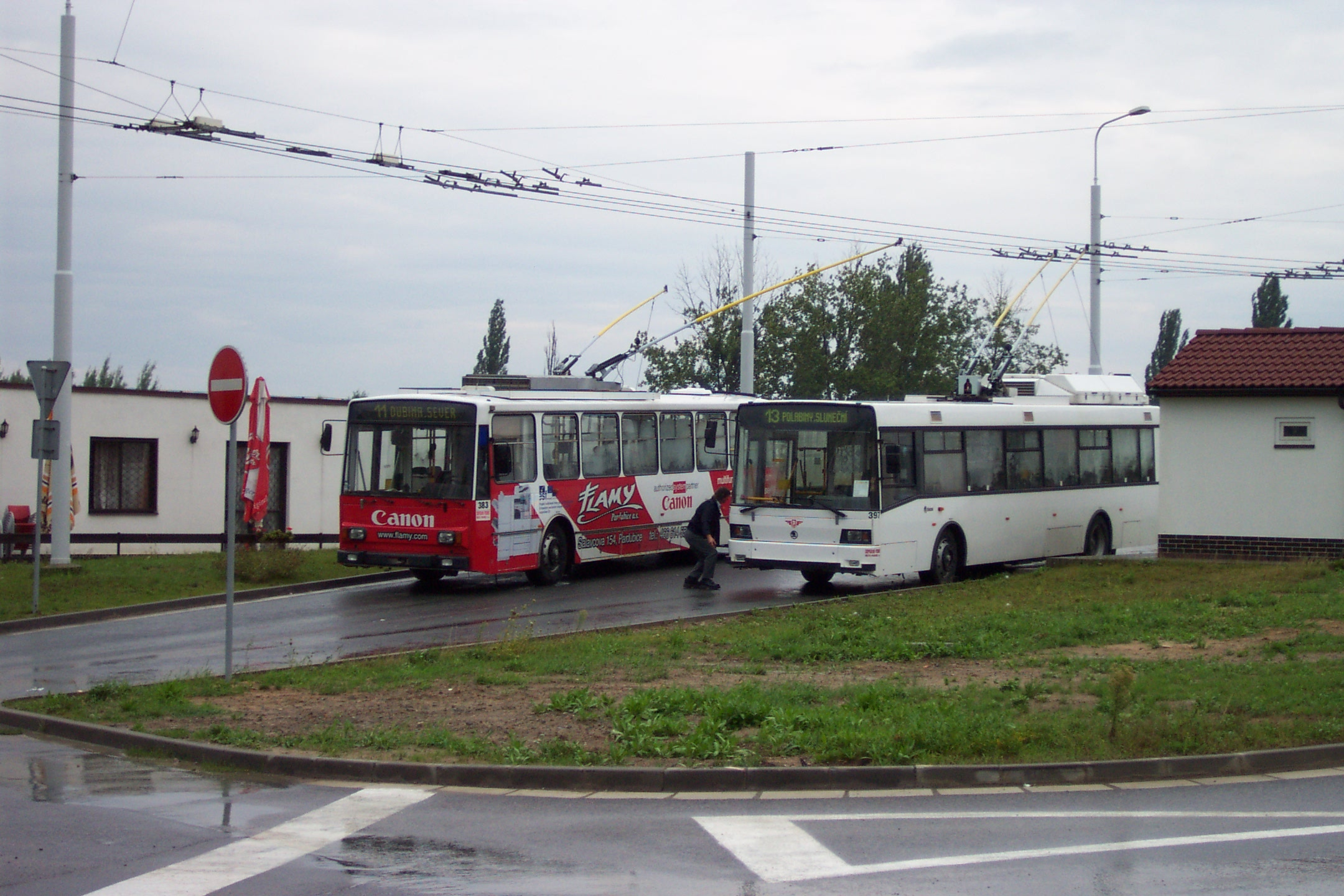 Trolleybuses at Pardubice, Czech Republic